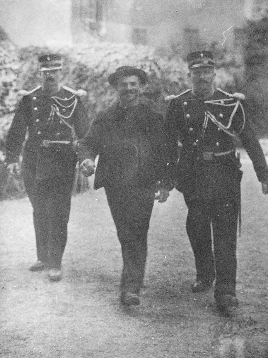 Anarchist Luigi Lucheni (1873-1910), killer of Empress Elisabeth of Austria, in 1898. Smiling and proud Lucheni, after a first interrogation on the assassination, is returned to jail.